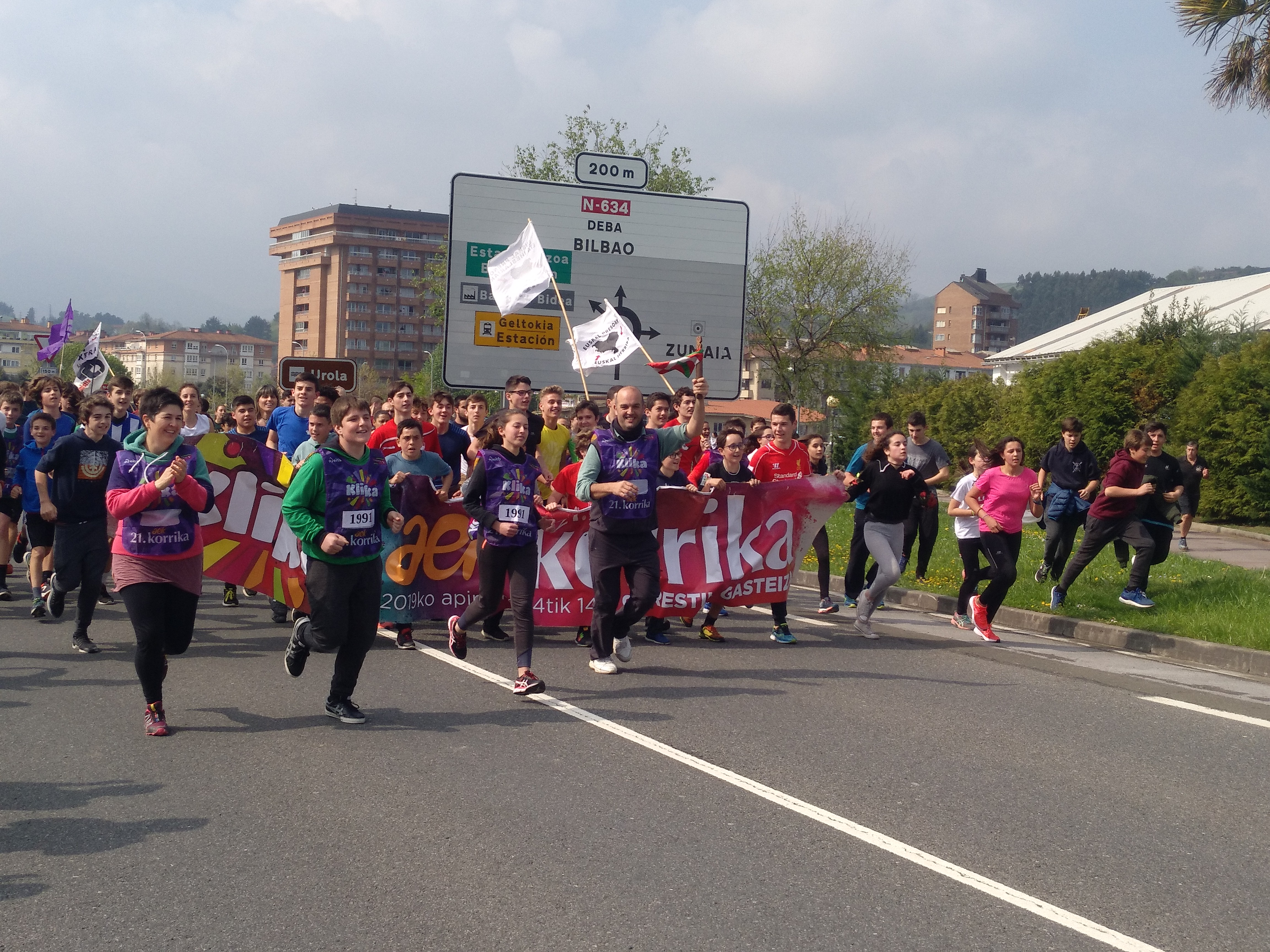 Korrika race in Zumaia 2019